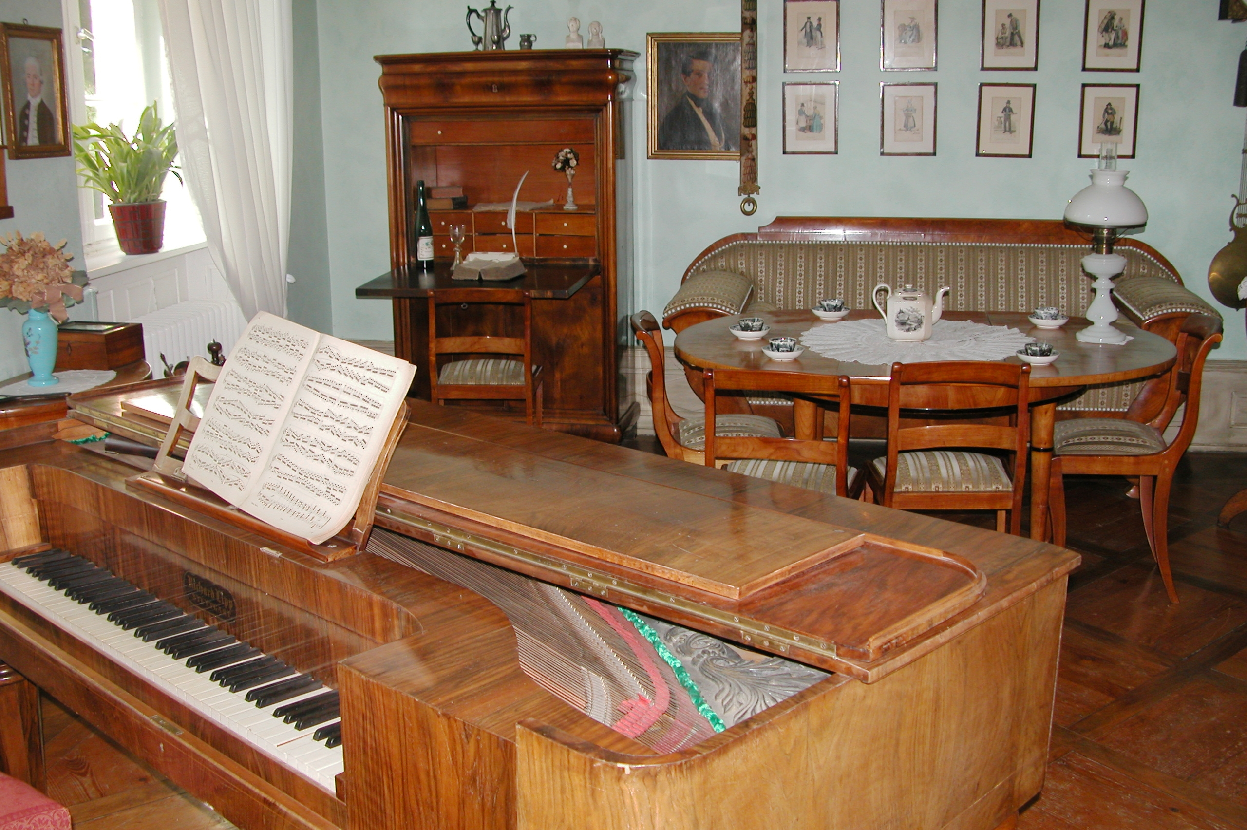 Open air museum Roscheider Hof, Germany, Vadenaire's rooms